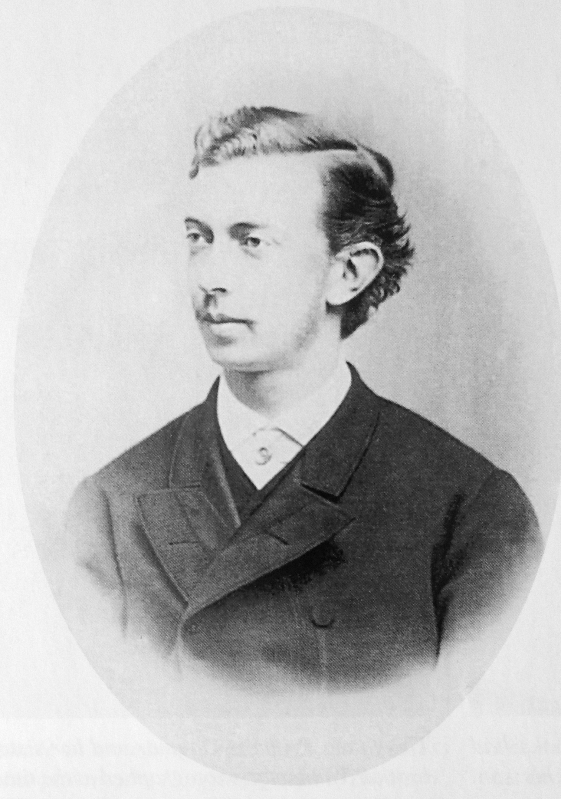 Nicholas Alexandrovich, Tsarevich of Russia